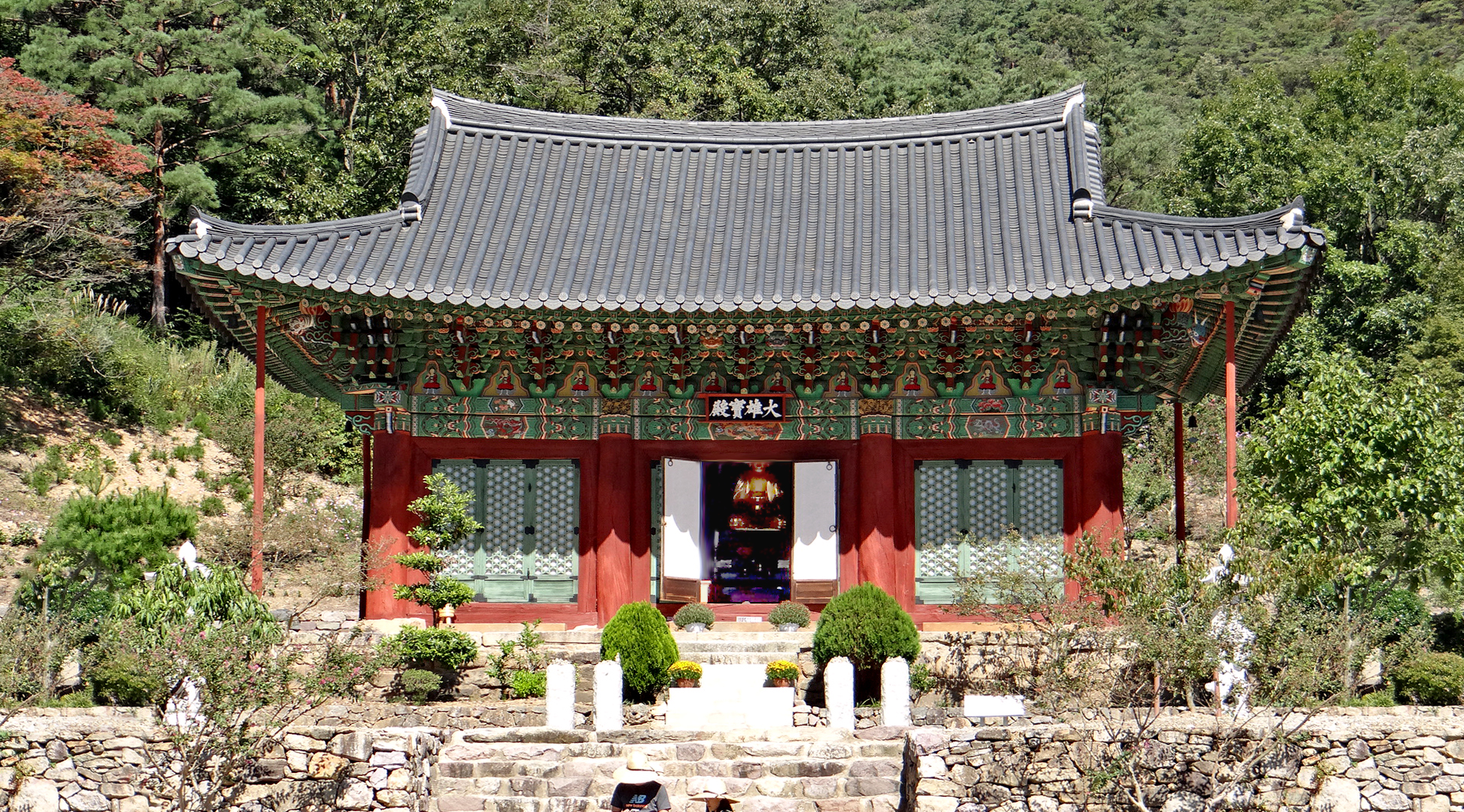 Daeungjeon (main worship hall) at Gaeamsa, a small, quiet Korean Buddhist temple in Buan County, North Jeolla Province, South Korea built in 634 C.E. during the Baekje Dynasty and expanded in 1313. The temple was burned down during the Imjinwaeran Japanese Invasion and reconstructed in 1658.